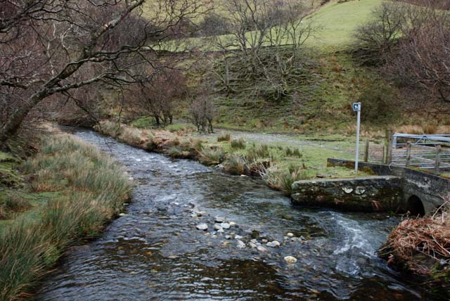 The Afon Cywarch near Penrhyn Taken from the road bridge. The stream coming in from the right through the culvert is the Afon Gelli, which drains the Craig Cywarch slopes. The bridleway connects with the dead-end lane from Abercywarch which serves the west side of Cwm Cywarch.